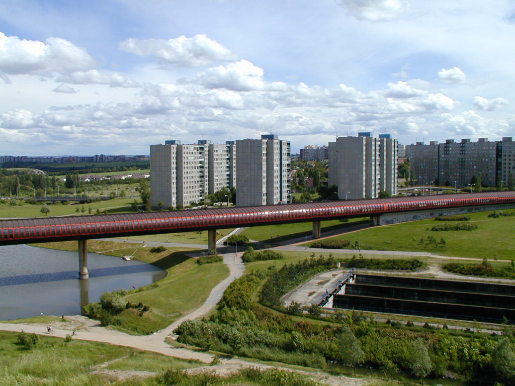 Prague Metro bridge between stations Lužiny a Hůrka